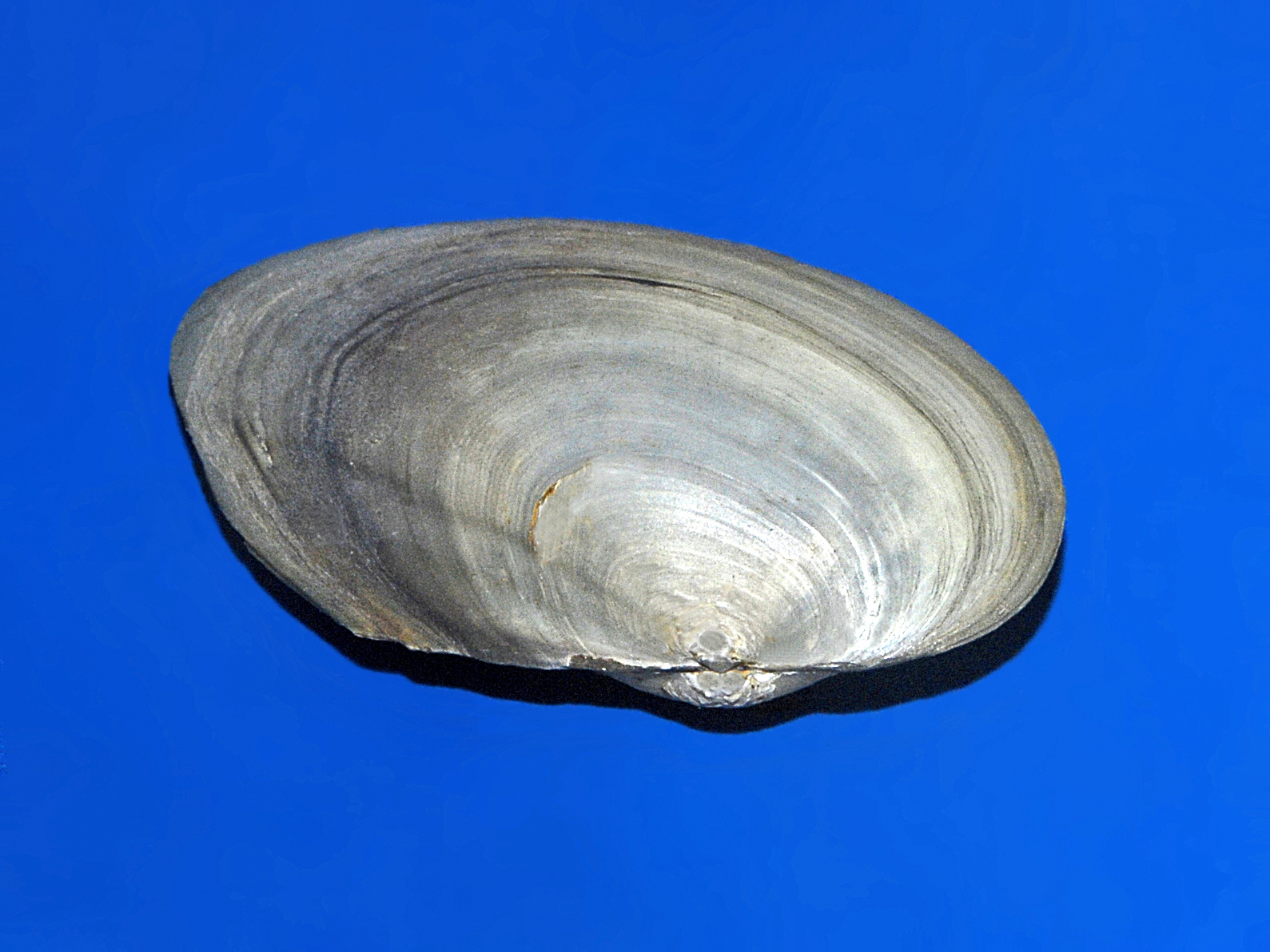 Shell of Anodonta cataracta at the Museo Civico di Storia Naturale di Milano